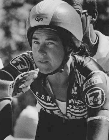 Historic Images - 1988 Press Photo Bicycle Racing Olympic Trials Janelle Parks and Sue Ehlers